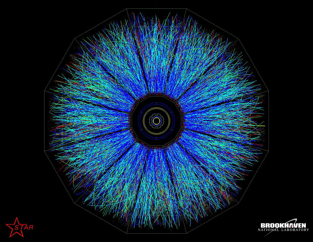 A view of one of the first full-energy collisions between gold ions at Brookhaven National Laboratory's Relativistic Heavy Ion Collider, as captured by the Solenoidal Tracker At RHIC (STAR) detector. The tracks indicate the paths taken by thousands of subatomic particles produced in the collisions as they pass through the STAR Time Projection Chamber, a large, 3-D digital camera. Credit: Image courtesy of Brookhaven National Laboratory.